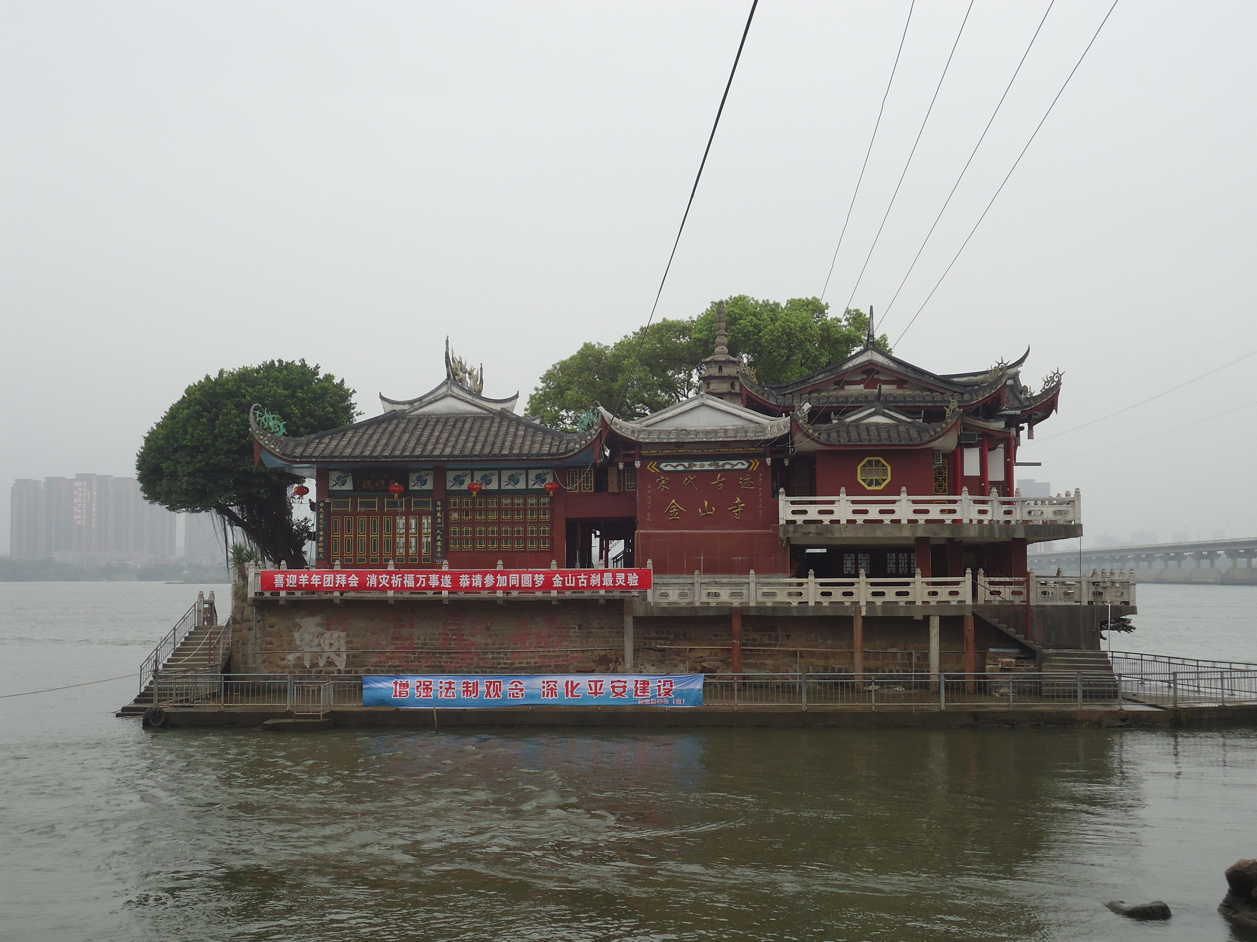 Fuzhou_Jinshan_Buddism_Temple_in_March_21,2015.